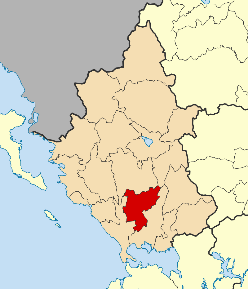 Locator map for Ziros municipality in Greek region Epirus (2011)